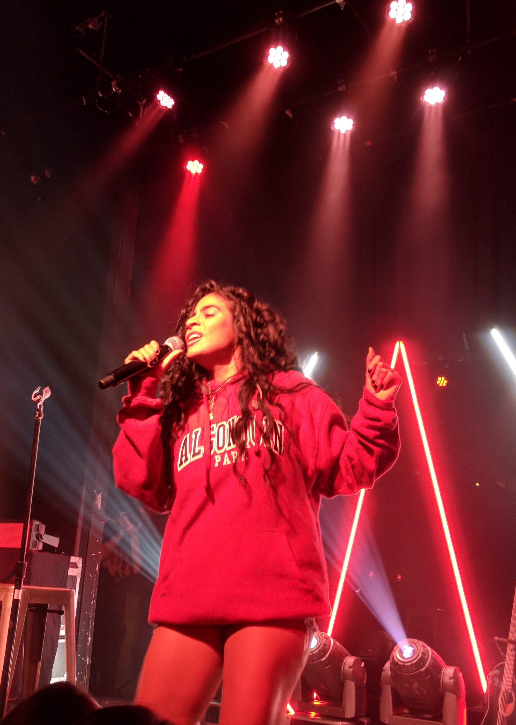 Jessie Reyez performs at Verizon x Pandora Presents at Rough Trade in Brooklyn